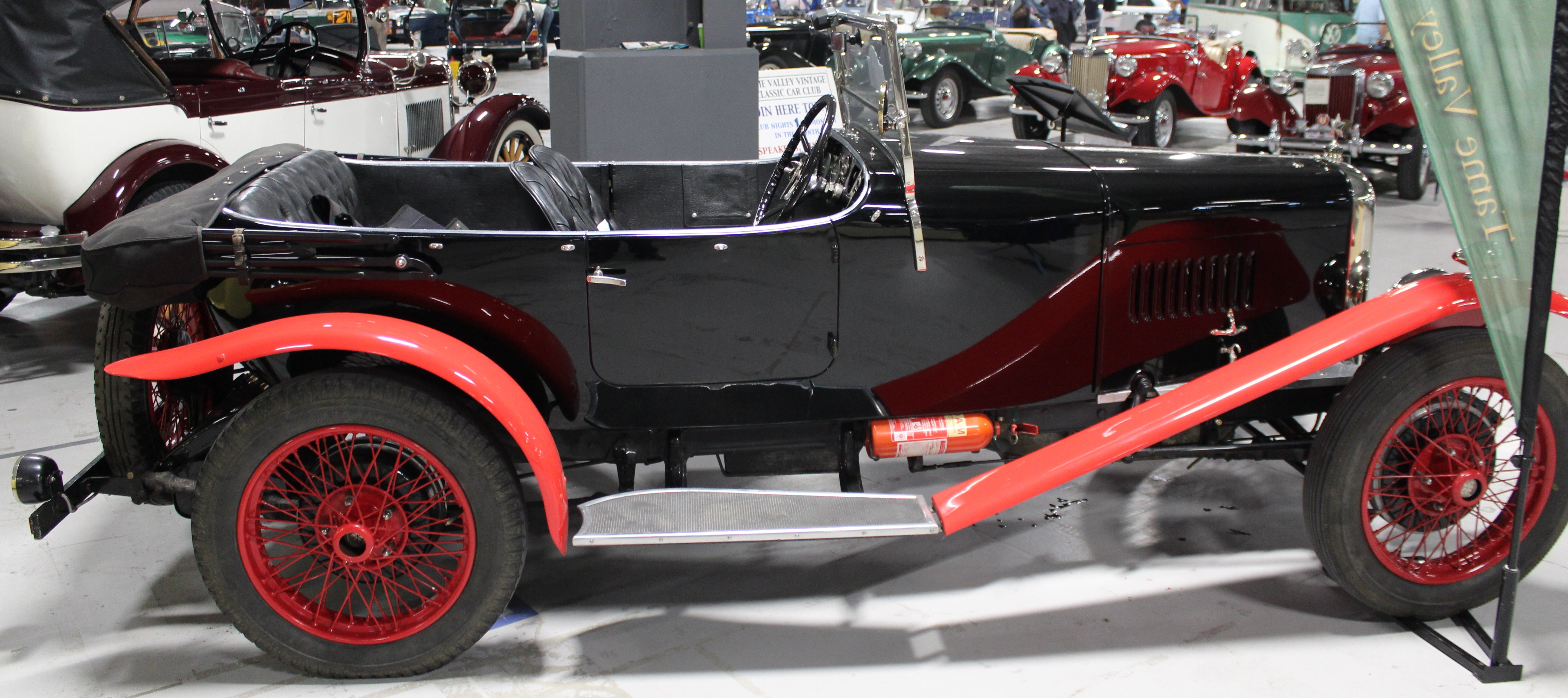 Star 12-25 sports (KC5830 DVLA) first registered April 1924, 1465 cc